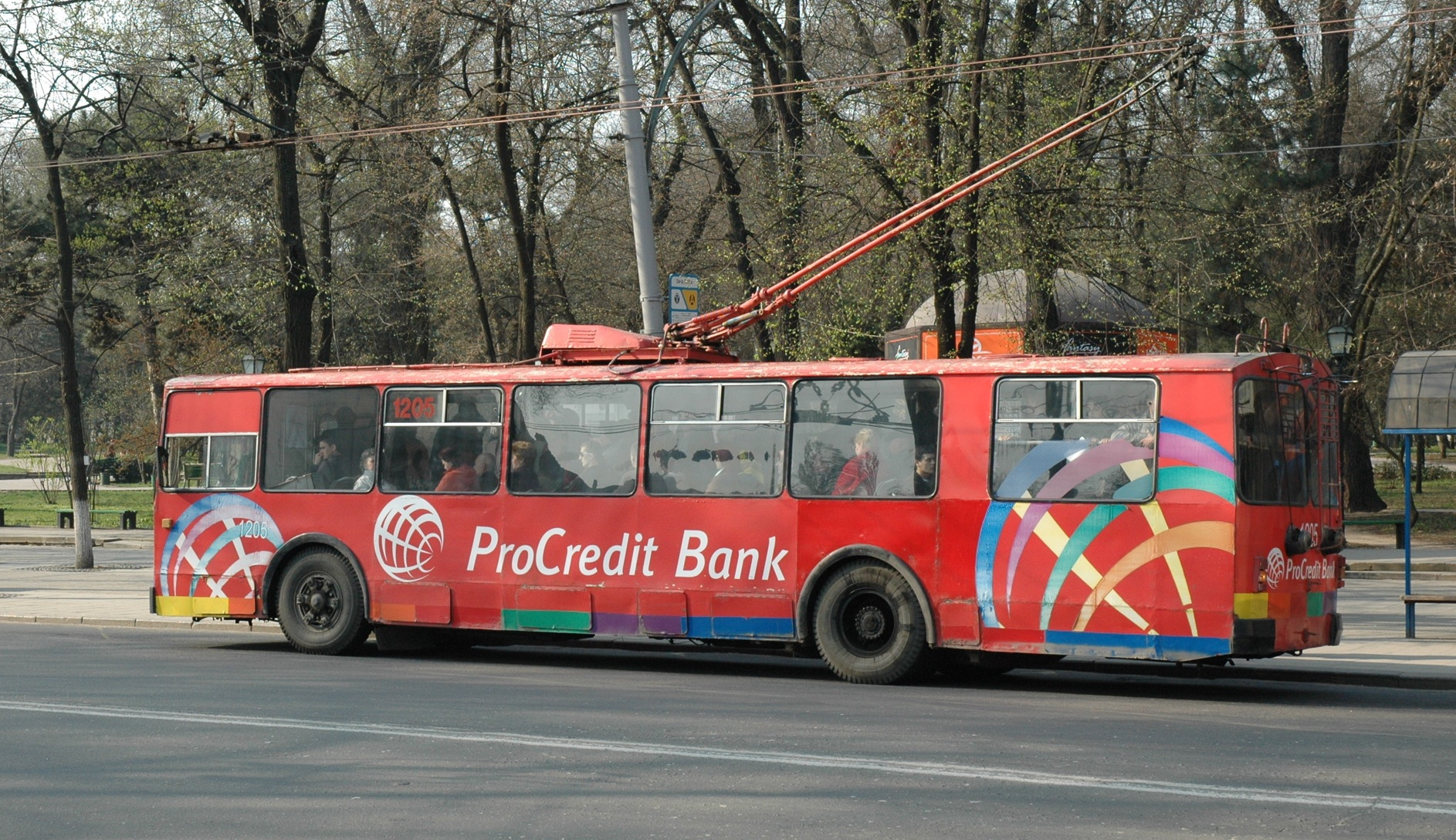 ZiU-9 trolleybus in Chisinau (Moldova)